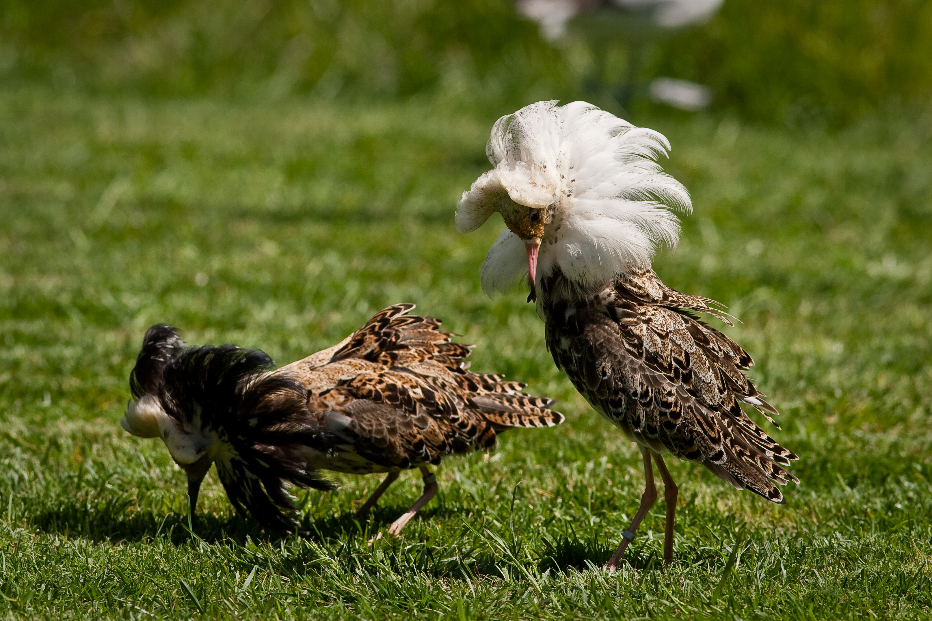 Two male Ruff at Diergaarde Blijdorp, Netherlands.